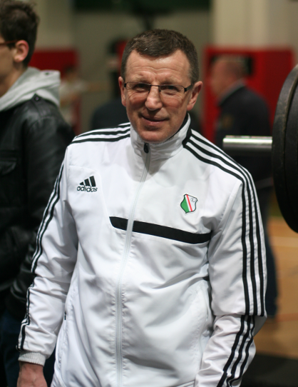 Polish boxer Krzysztof Kosedowski, olimpic bronze medalist, Moscow 1980.